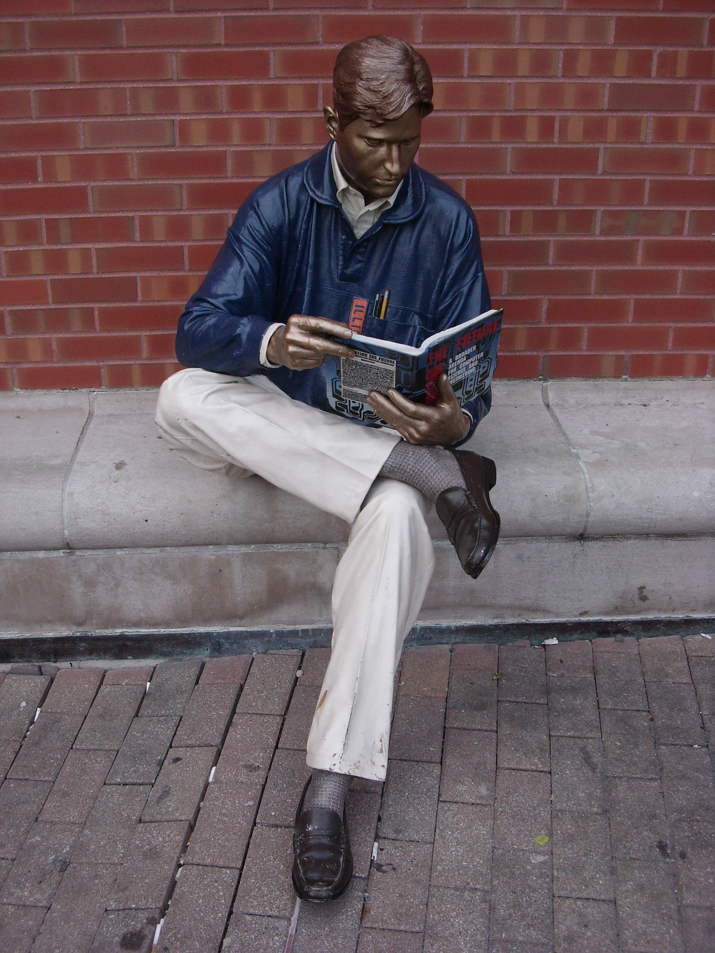 A realistic sculpture by John Seward Johnson II of a man absorbed in his physics book in front of the Grainger Engineering Library.